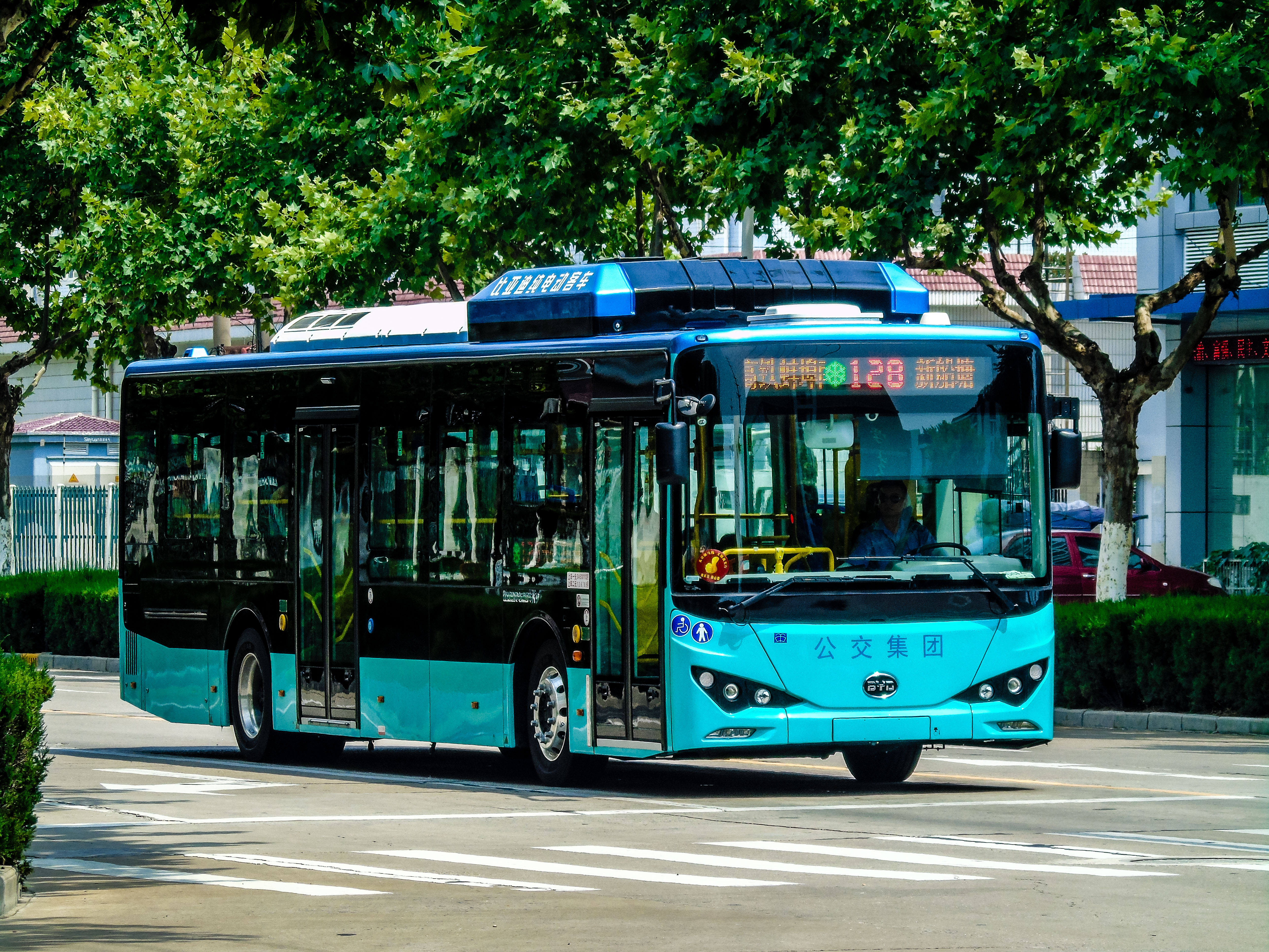 Bengbu Bus No.128 with BYD Electric Bus